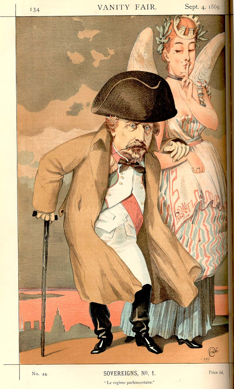 Sovereigns No.1: Caricature of Napoleon III. Caption reads: "Le regime parlementaire."